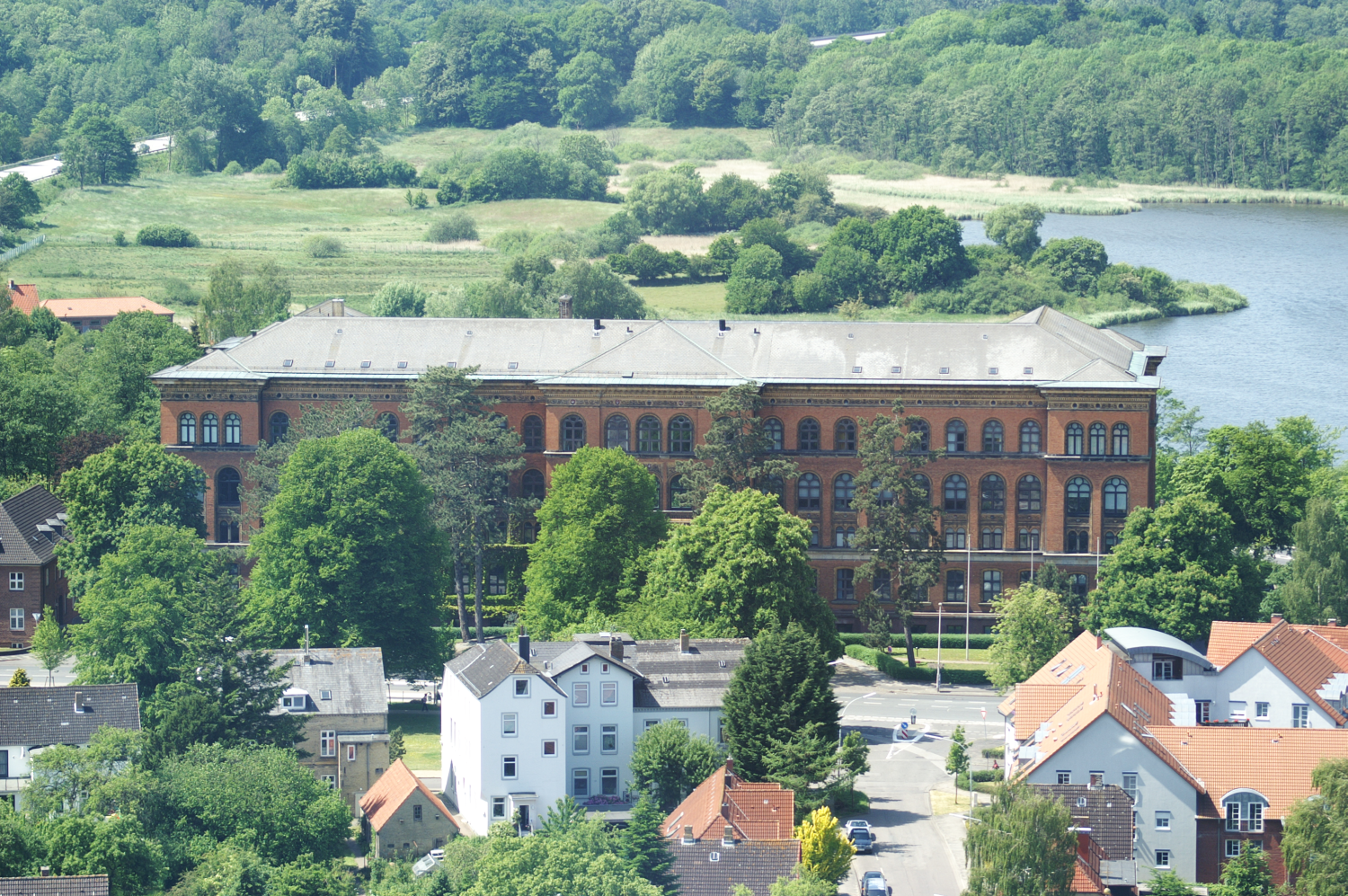 Oberlandesgericht of Schleswig-Holstein in Schleswig.Slang: "Red Elephant".